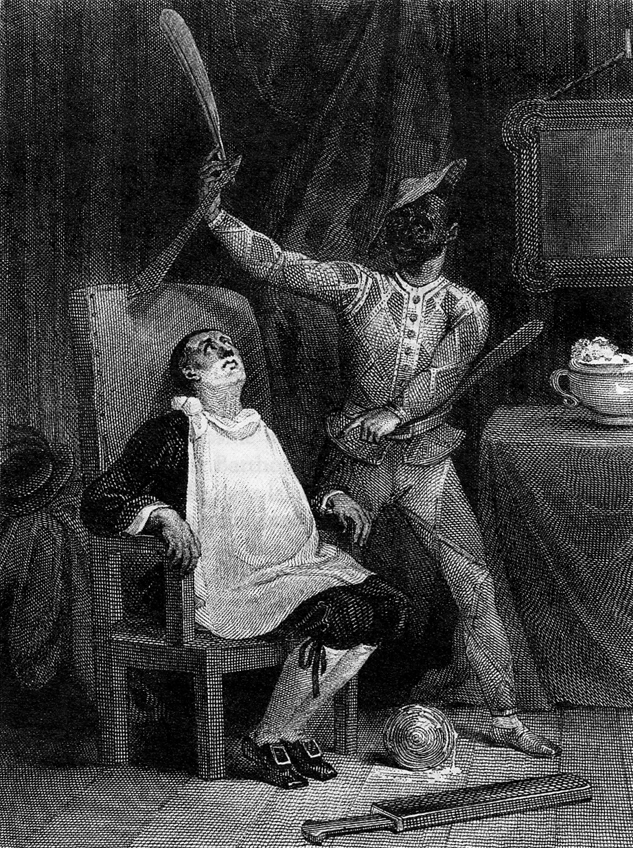 Illustration of Beaumarchais' The Barber of Seville